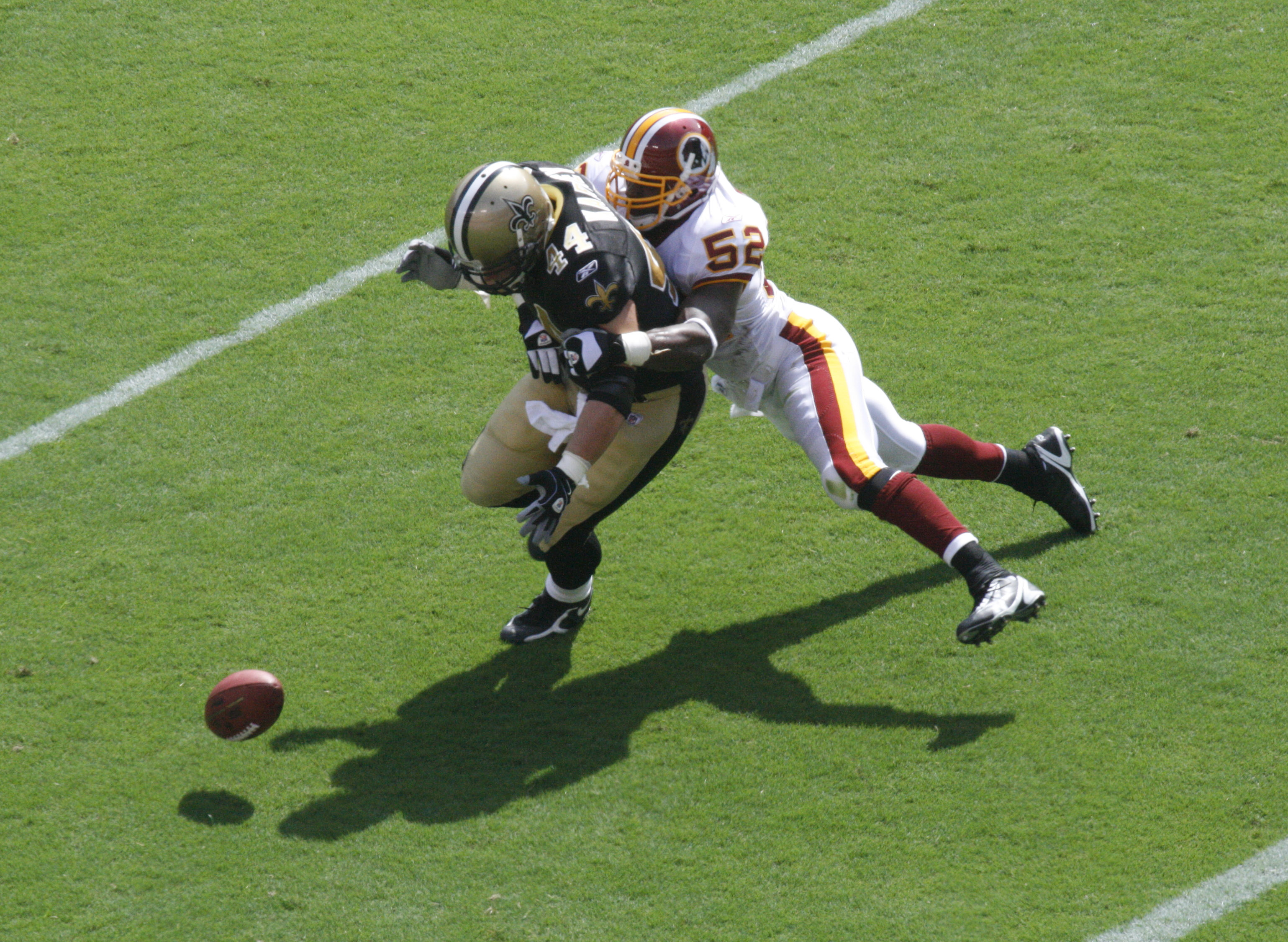 Rocky McIntosh playing against the New Orleans Saints in the 2008 season.